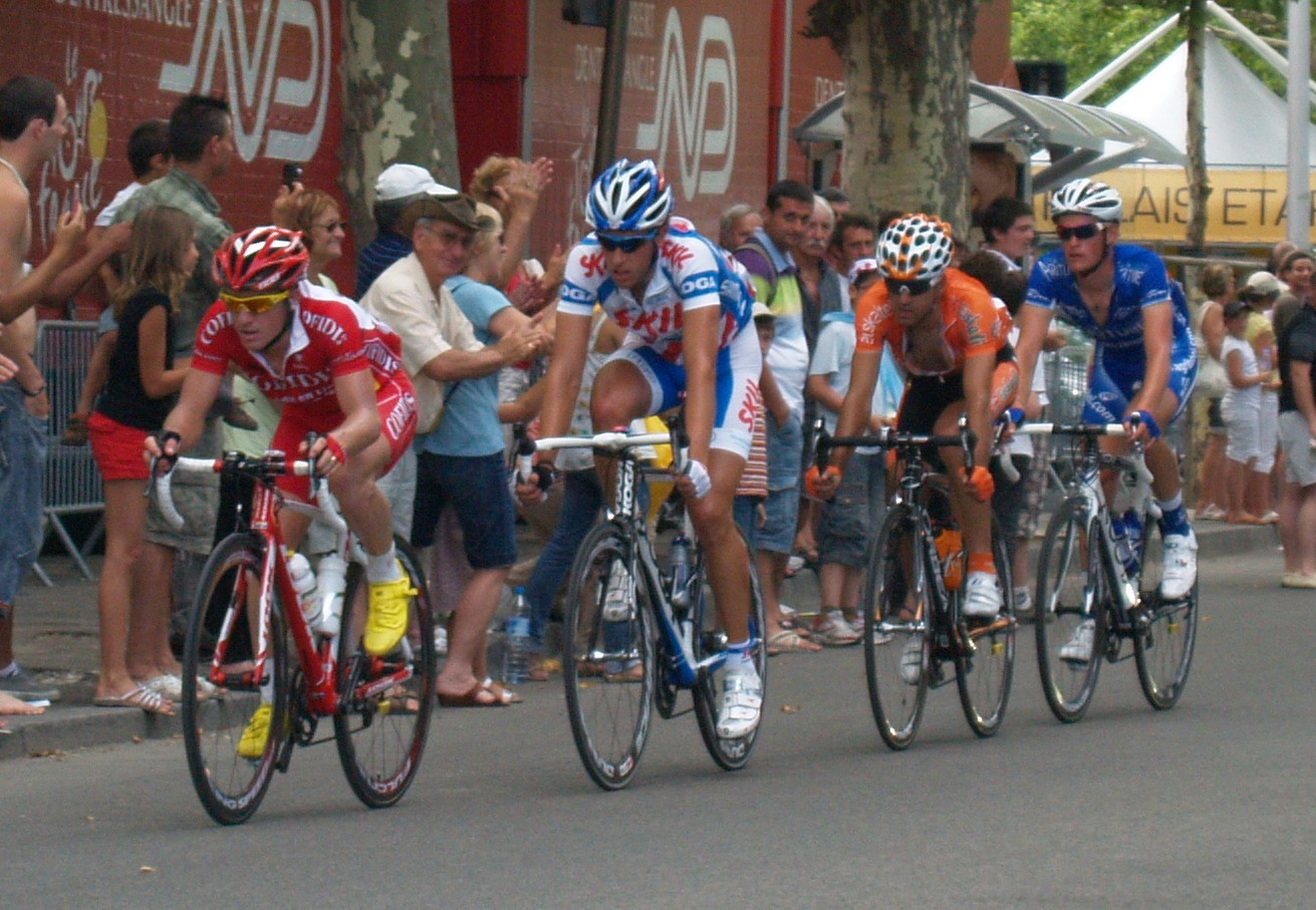 Samuel Dumoulin - Koen de Kort - Rubén Pérez Moreno - Maxime Bouet during the Tour de France 2009.